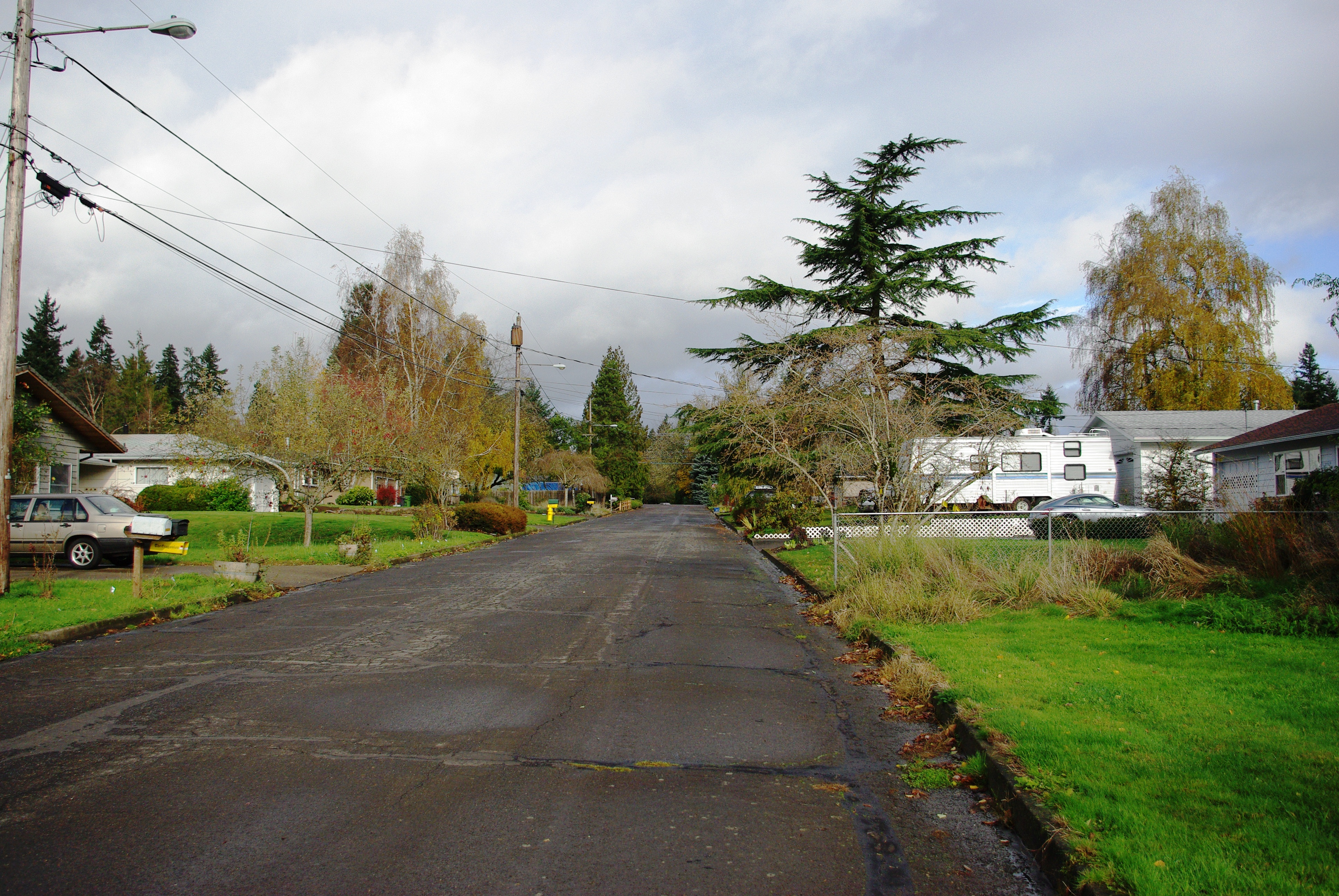 Tualamere Avenue in Rivergrove, Oregon, USA.